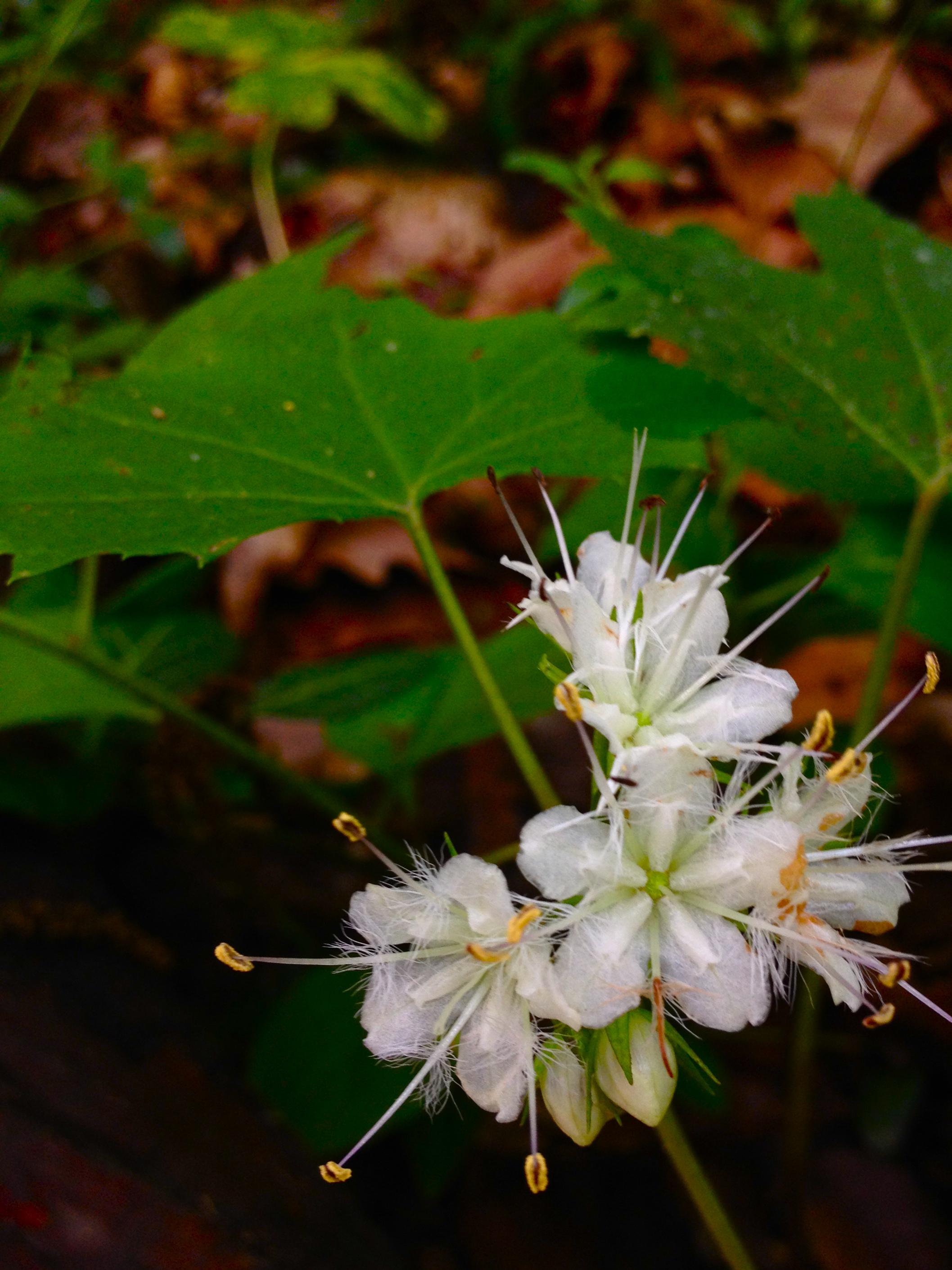 Photo of Hydrophyllum canadense in flower. This is a native plant growing wild in the C & O Canal National Historical Park, Montgomery county Maryland, USA. This species is a member of the Boraginaceae family.